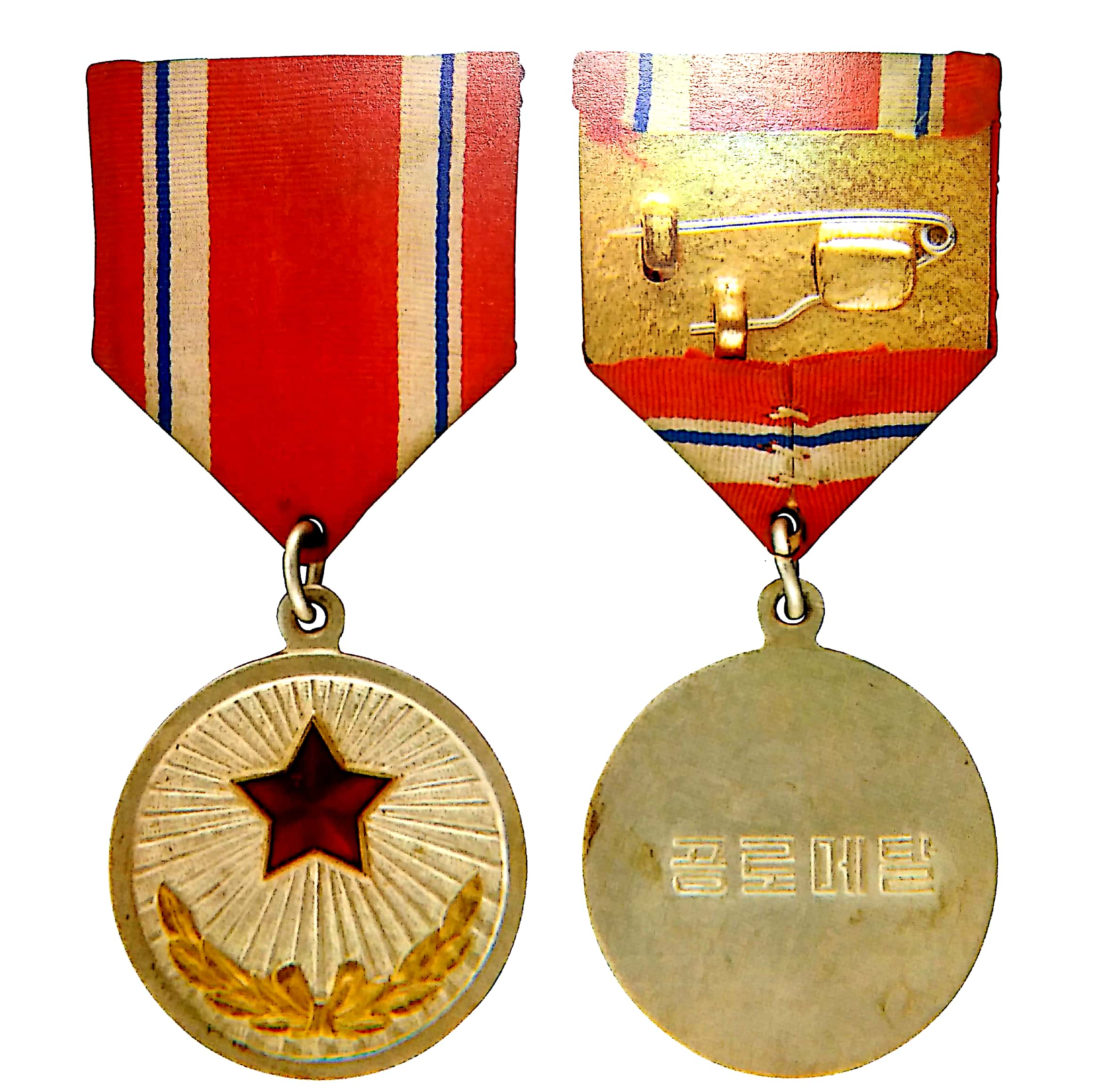 1970s' version of DPRK Meritorious Service Medal